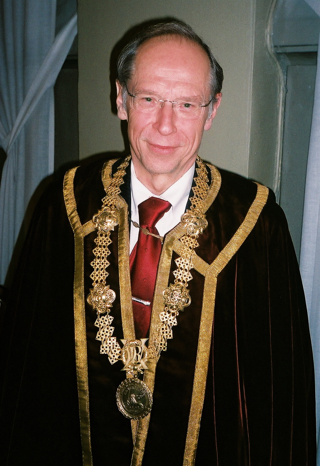 Per Eriksson (born 1949), professor of signal processing and rector magnificus (vice chancellor) of Lund University since 2009.